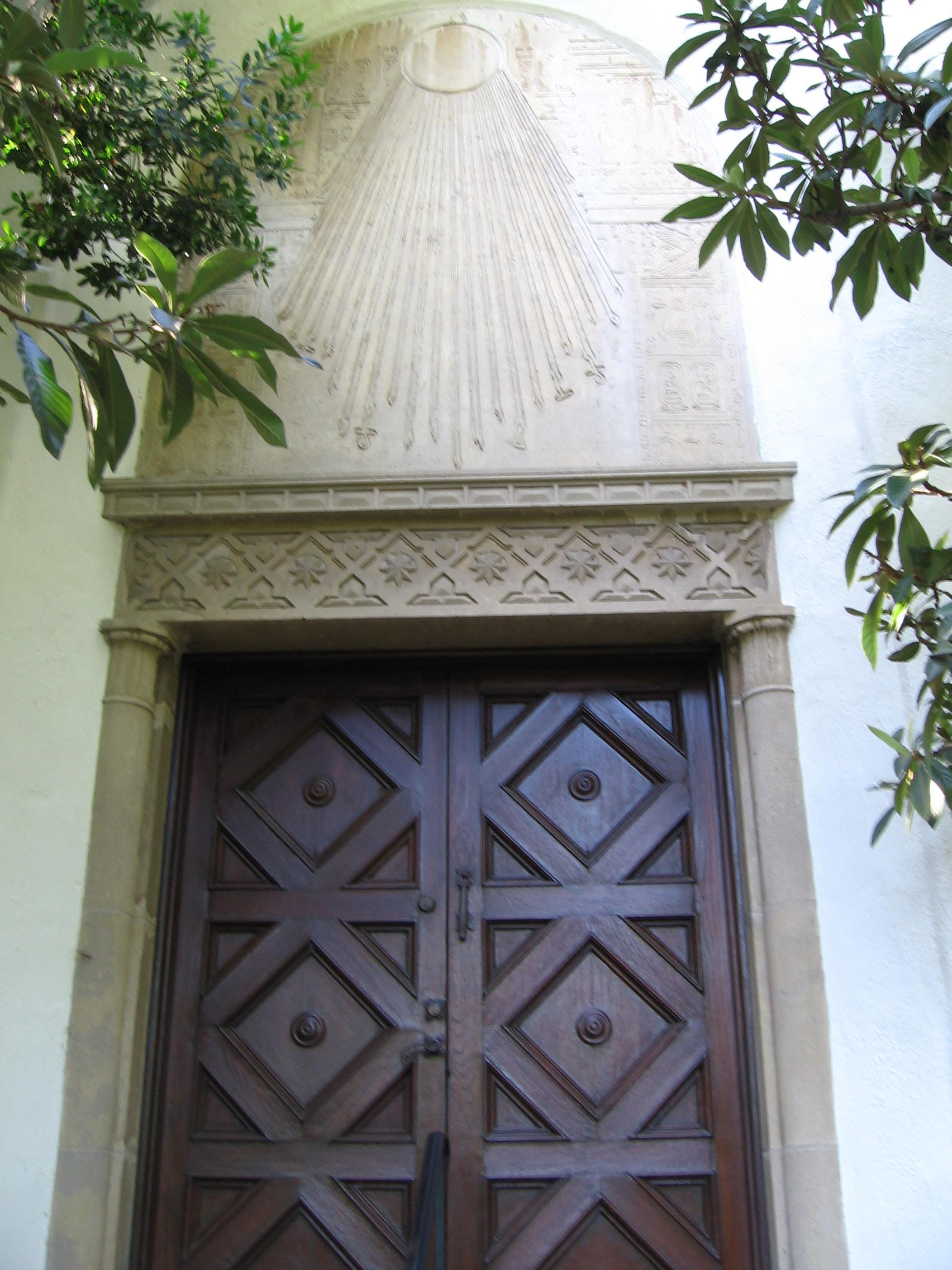 The outside of the Hale Solar Laboratory, taken in June 2008.